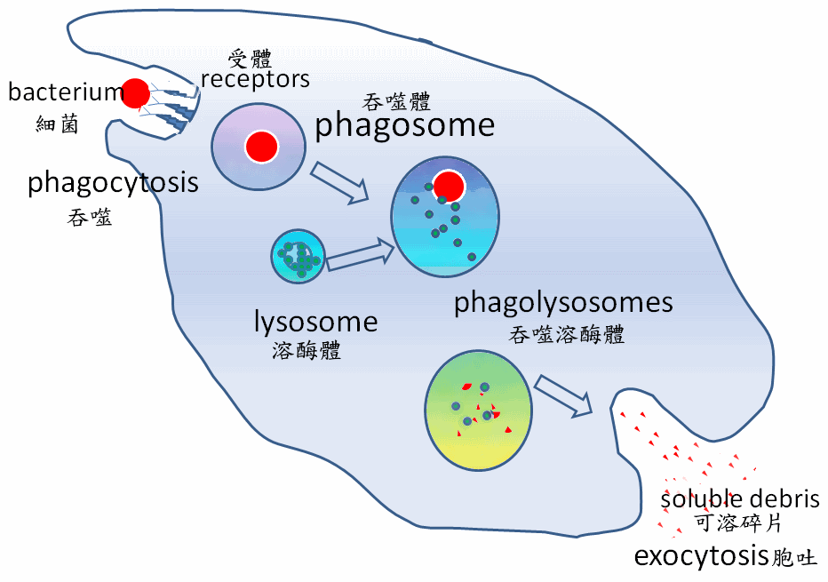 The Chinese version of File:Phagocytosis2.png